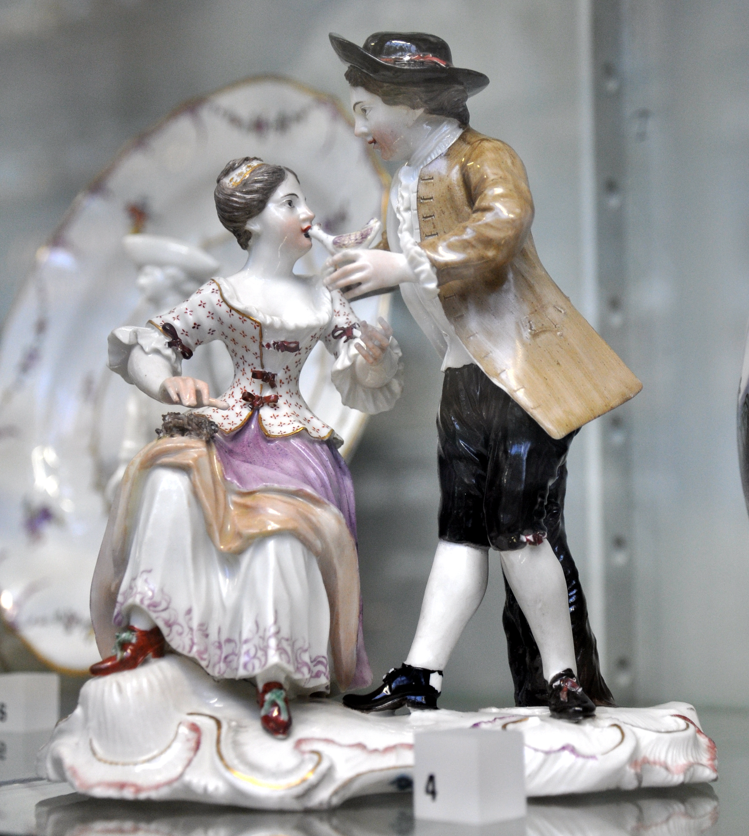 Figure group "Lovers with bird and nest", by Johann Wilhelm Lanz (design c. 1756–1757), Frankenthal porcelain, c. 1760 Victoria and Albert Museum, London, museum no. C.929-1919 (Link)